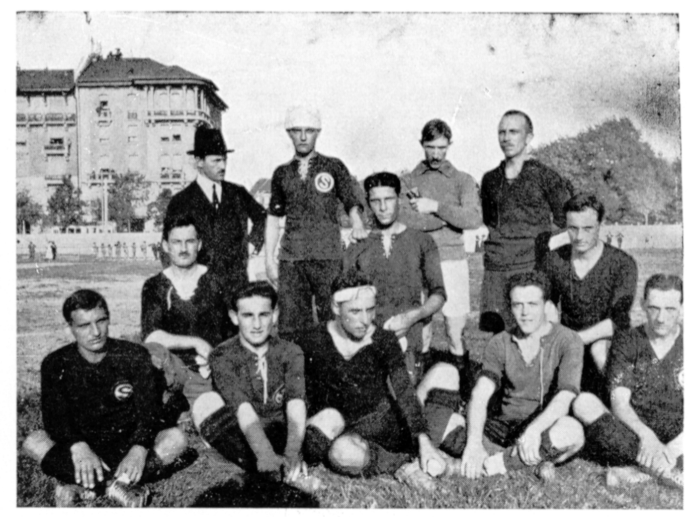 Swiss champion 1917/18 Servette FC Behind: Fred Greiner, Gobet, Bouvard, Fehlmann Middle: Beyner, R. Reymond, Perrier Front: Merkt, Wionsowski, Pache, Bédouret, Mangold